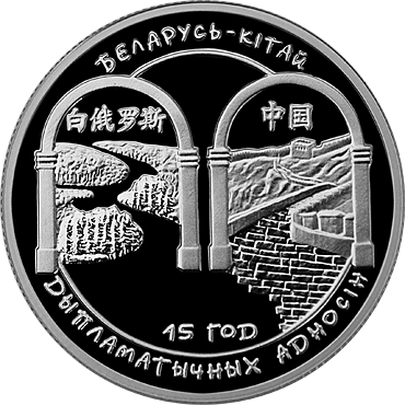 Belarus and the global community. Commemorative coins "Belarus - Kіtay. 1915 dyplamatychnyh adnosіn" ("Belarus - China. 15 years of diplomatic relations")